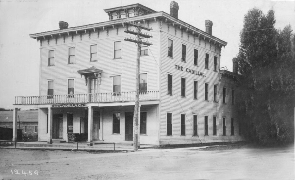 Cadillac House Lexington c 1900 From nom: "Historic photograph, undated, but between approximately 1900 and 1909, looking southwest, after removal of south two-story section, but showing cupola still in place."